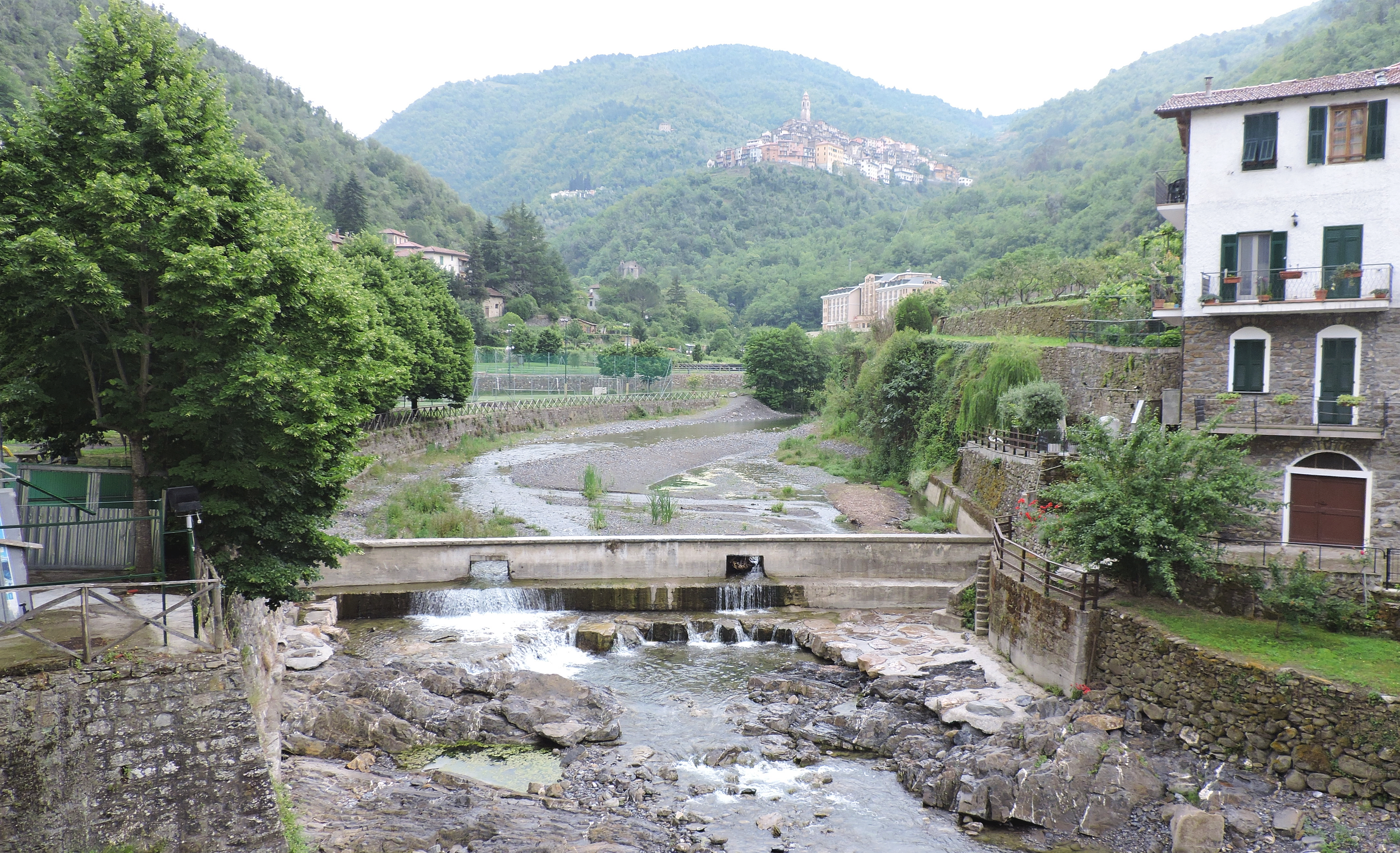 The Nervia in Pigna (Liguria, Italy); on the backgoround Castel Vittorio